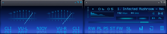 Audacious and VU-Meter plugin